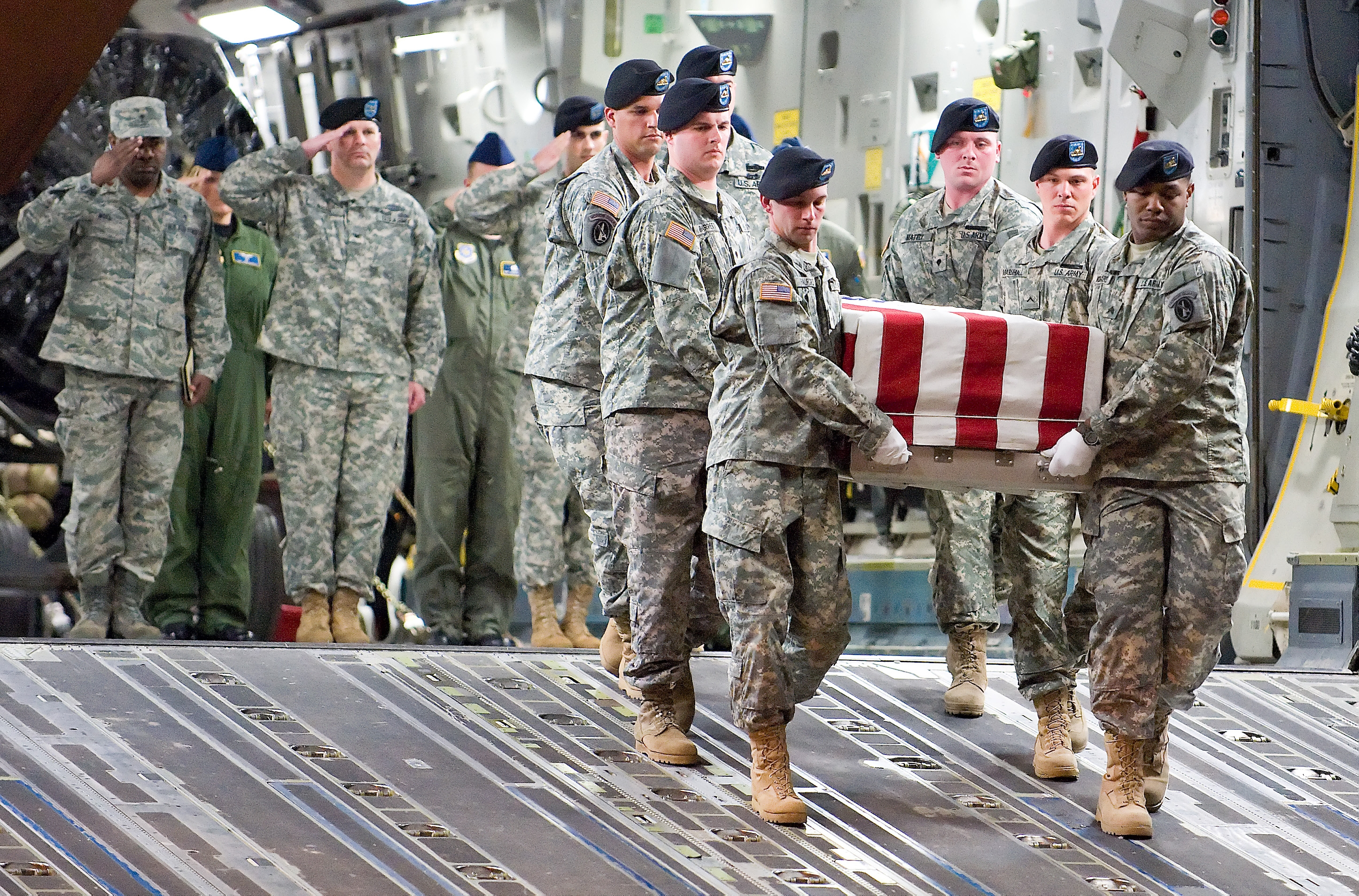 An Army carry team transfers the remains of Army Specialist Israel Candelaria Mejias at Dover Air Force Base, Del., April 7. Specialist Candelaria Mejias died April 5 near Baghdad, Iraq, of wounds sustained when a mine detonated near him during combat operations. He was assigned to the 1st Battalion, 2nd Infantry Regiment in Task Force 3rd Battalion, 66th Armor Regiment, 172nd Infantry Brigade Combat Team, Grafenwoehr, Germany.